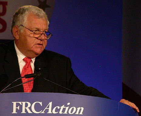 William Bennett in 2007 in Washington, DC at the Values Voters conference